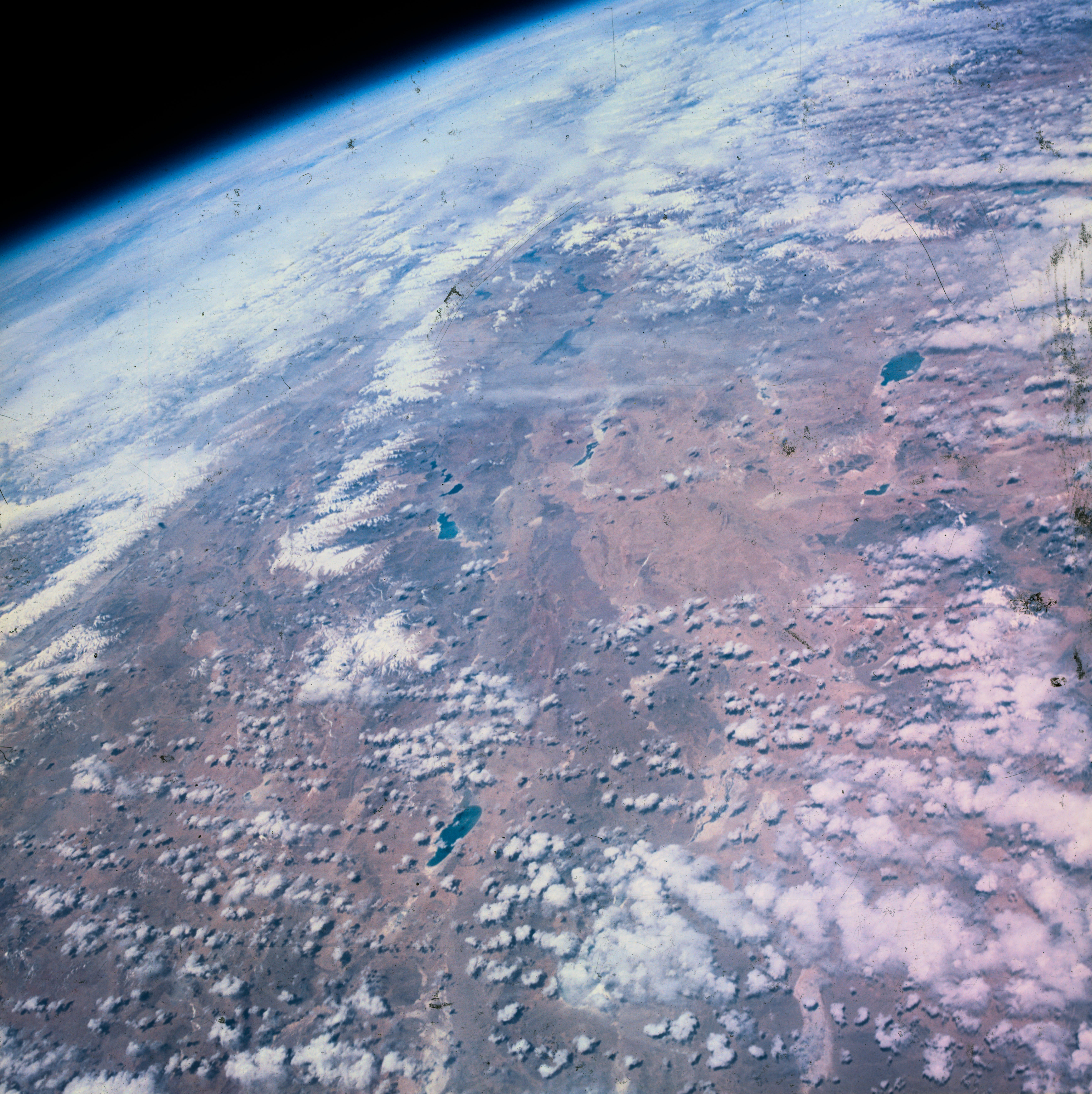 An image of Tibet-Kashmir, looking northwest, as photographed from the Mercury-Atlas 9 capsule by Astronaut L. Gordon Cooper Jr. Lake Ch'in-Tzu-Hu is visible in the upper right, Lake Yen-K'o-Ling-Ts in the lower left centre, and The Korakaram Range in the upper centre portion of the image.